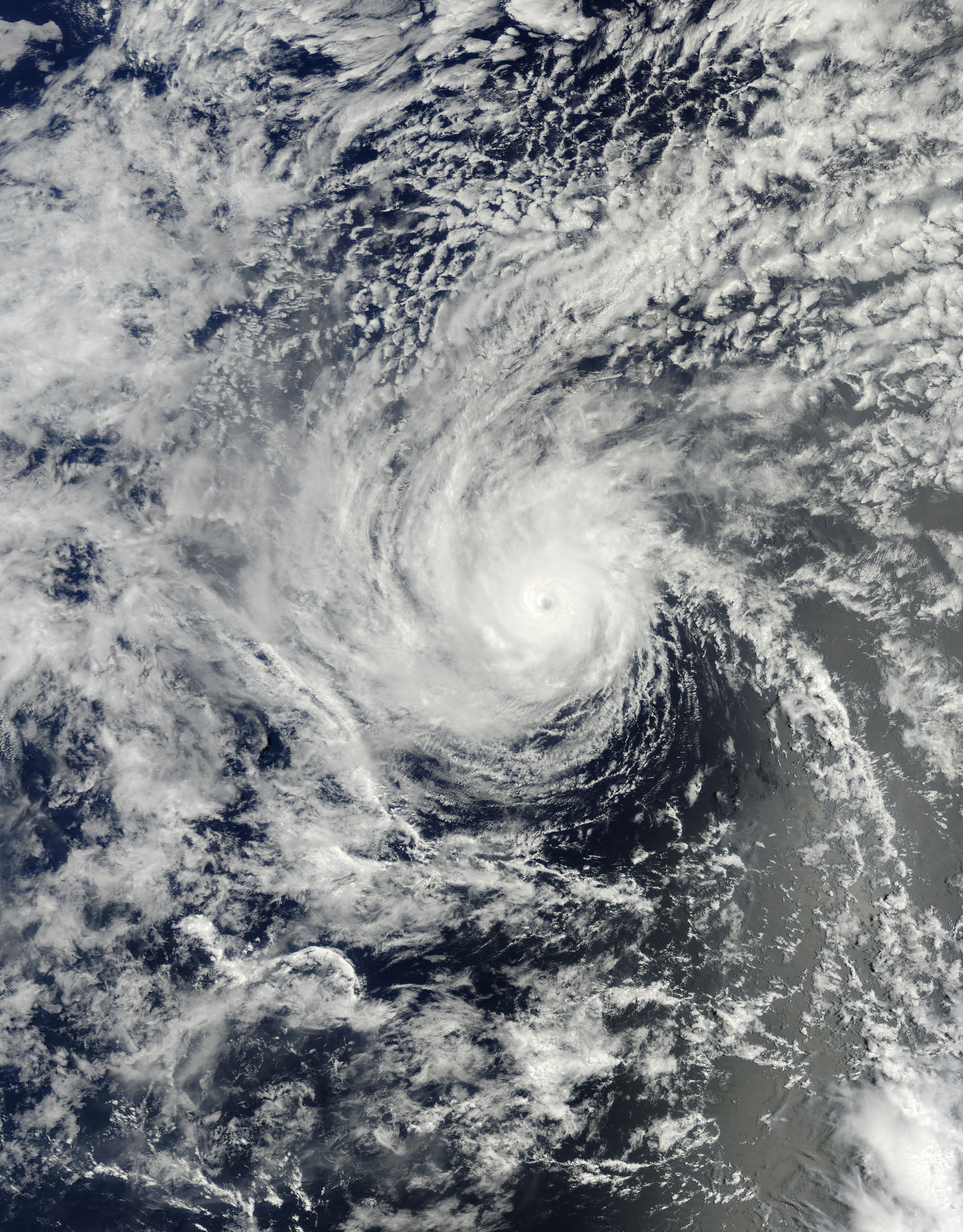 Hurricane Henriette on August 8, 2013